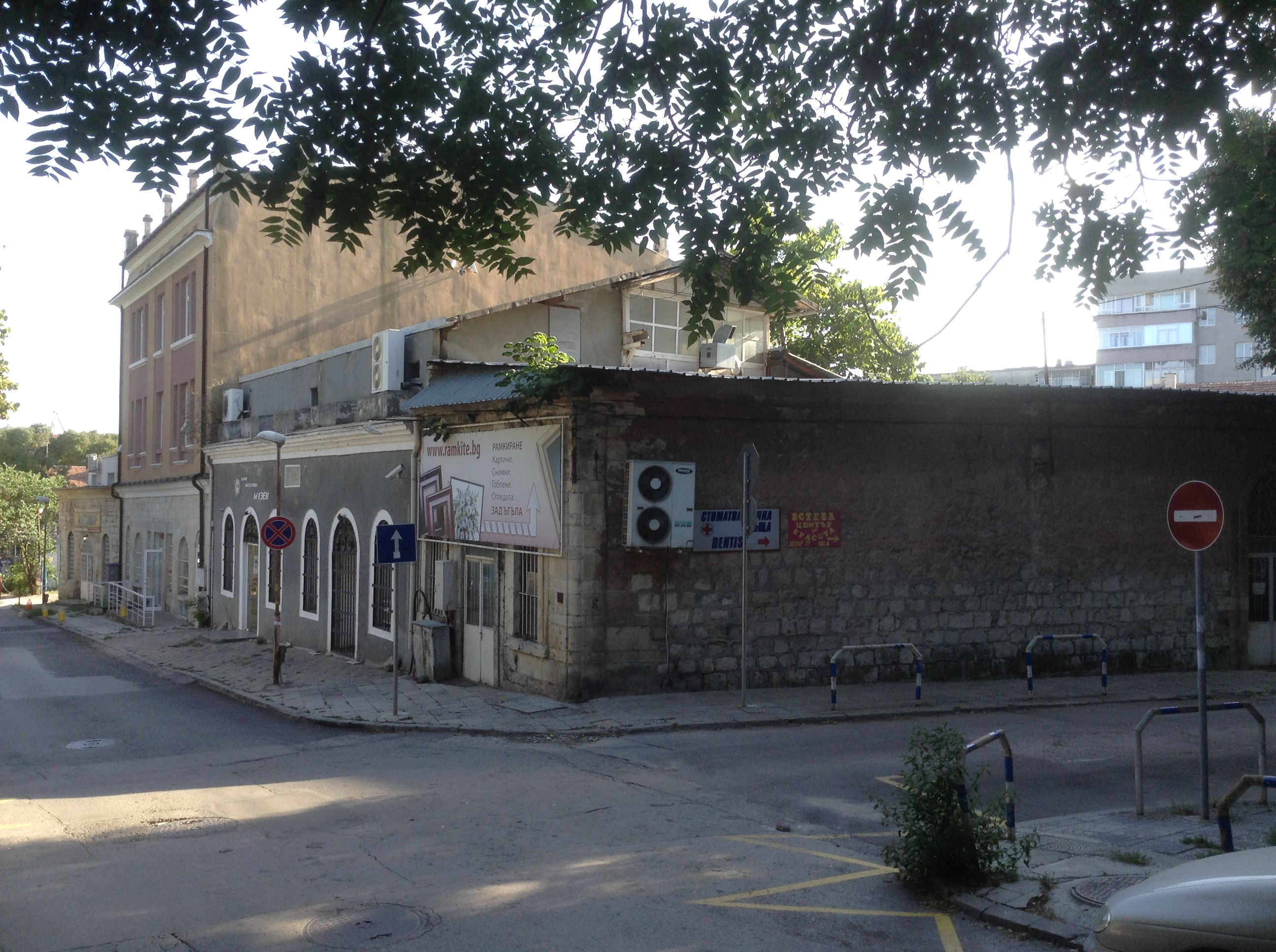 Late XIX cent commercial building in Varna, that was built by the Sivrioglu merchant brothers